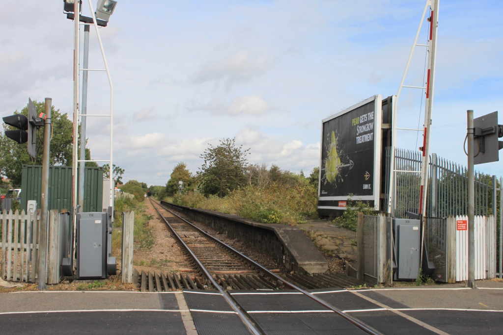 A view looking towards Trimley taken at the south end of the former Felixstowe Beach station in Suffolk, England. The single platform is still intact on the right despite being closed for 35 years; the line still sees regular container trains to the Port of Felixstowe.